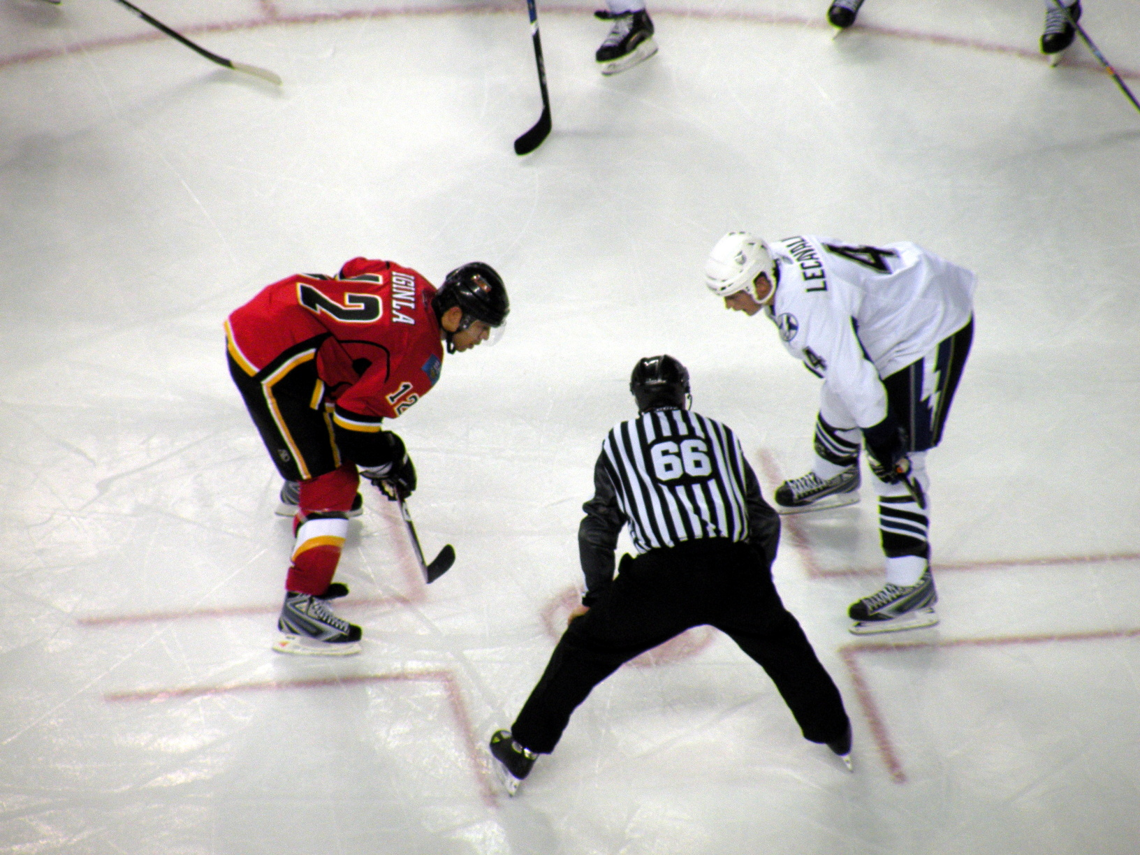 Jarome Iginla of the Calgary Flames and Vincent Lecavalier of the Tampa Bay Lightning prepare to face off during a game at Calgary.